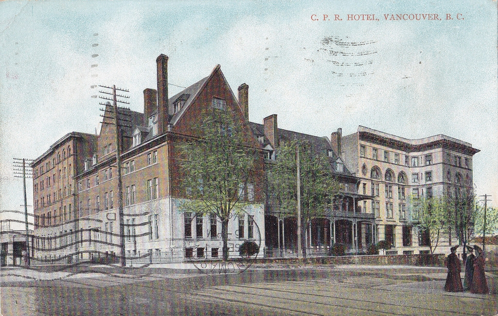 "C. P. R. Hotel, Vancouver, B. C." Published by W. G. MacFarlane, Toronto and Buffalo. Printed in Germany. View of the original CPR Hotel Vancouver, with additions, on the SW corner of West Georgia and Granville Streets in Vancouver, BC, circa-1908. The corner, "simplified chateau style" structure was the original hotel, built 1886-87 (Thomas Sorby, architect). The addition to the south, along Granville Street (left), was built in 1893-94. The western addition, in an Italian Renaissance palazzo style (right), was built 1901-05 (Francis M. Rattenbury, architect). Most of the buildings were replaced by the second CPR Hotel Vancouver structure (built 1913-16). Only Rattenbury's west-side corner structure (at Georgia and Howe Sts.) was incorporated into the new project.